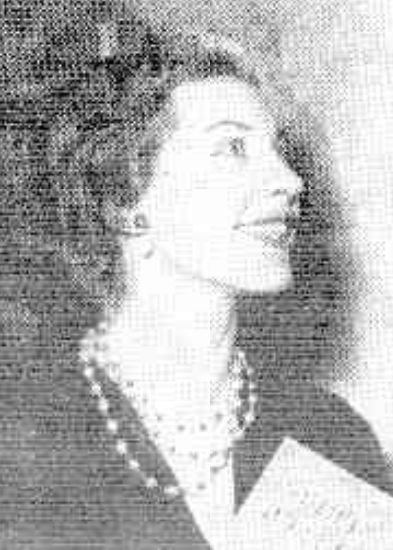 Marisa Martelli at David Jones' Art Gallery, Sydney 1953